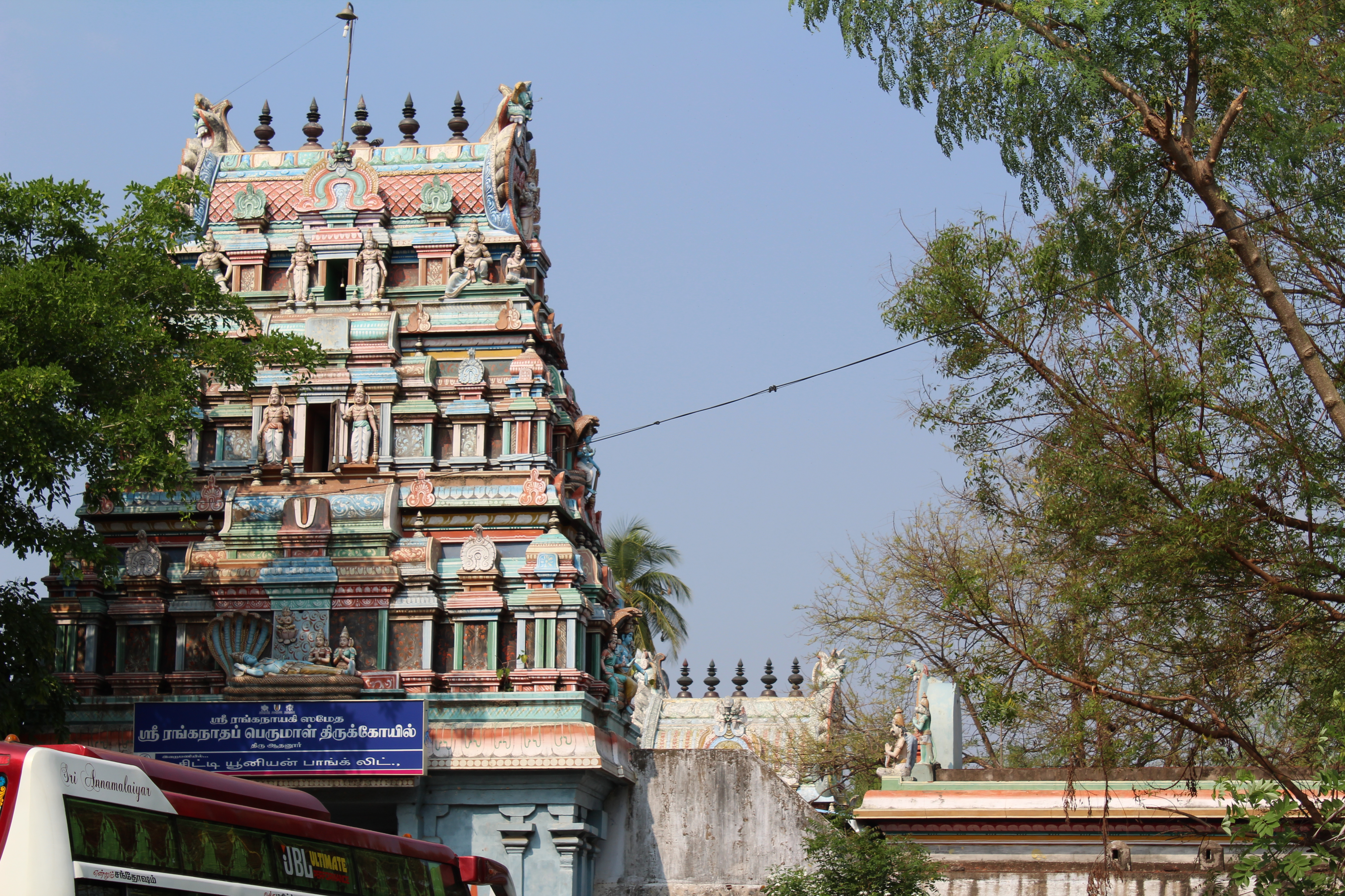 Adhanoor